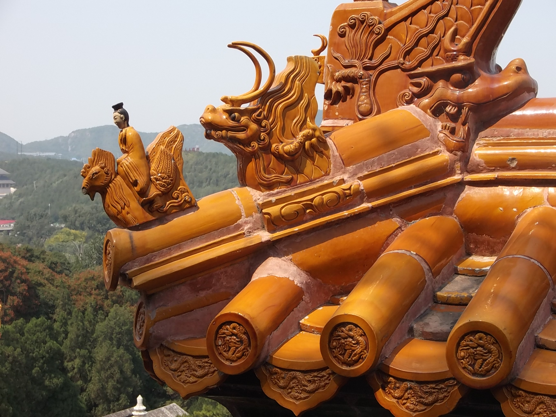 Sumeru Lingjing, Four Great Regions (Tibetan style temple), Summer Palace - Beijing, China, 27.8.2014